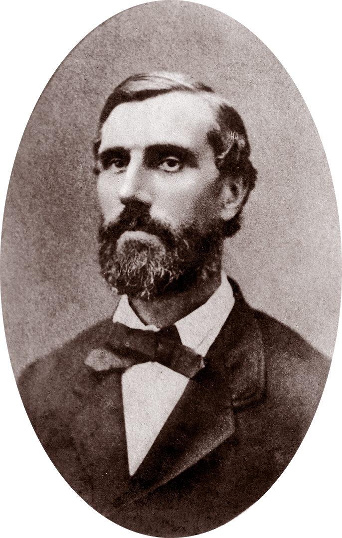 Henry Nicholas Greenwell (1826–1891) was an English merchant credited with establishing Kona coffee as a internationally known brand. His family became major land-holders in the Kona District of the island of Hawaiʻi.